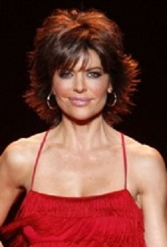 Lisa Rinna modeling at The Heart Truth Fashion Show 2008